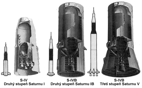 A compairison of the three SIV/SIVB variants. NASA image.